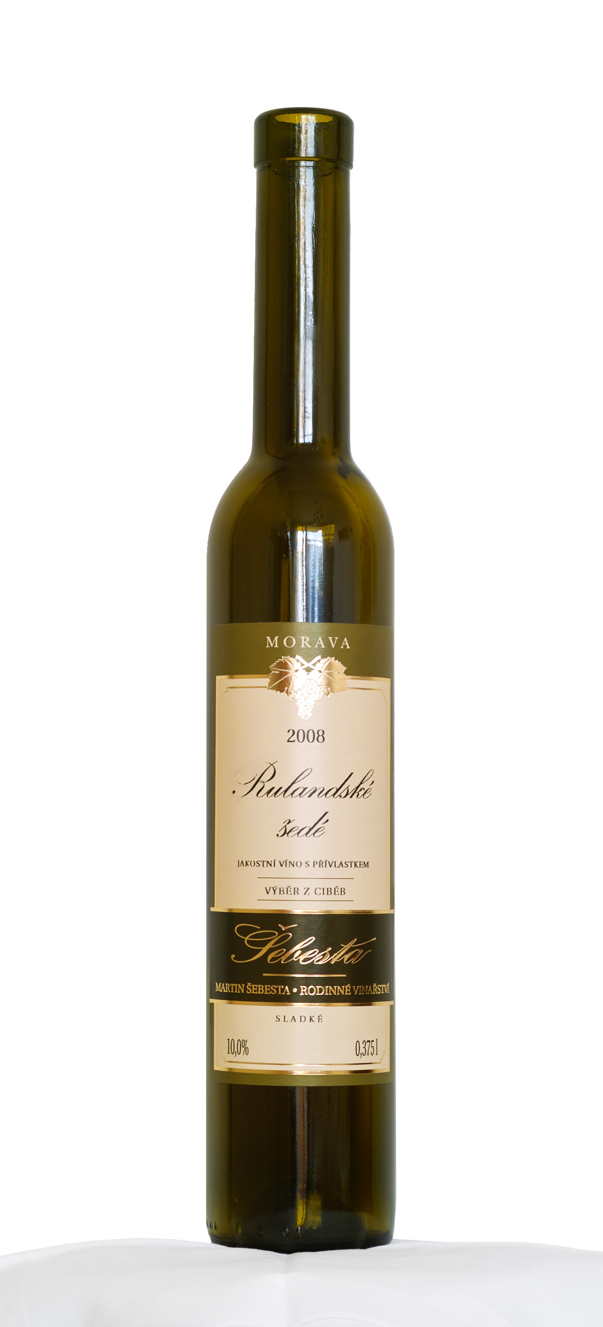 selected dried-berries harvest, wine (Pinot gris 2008)